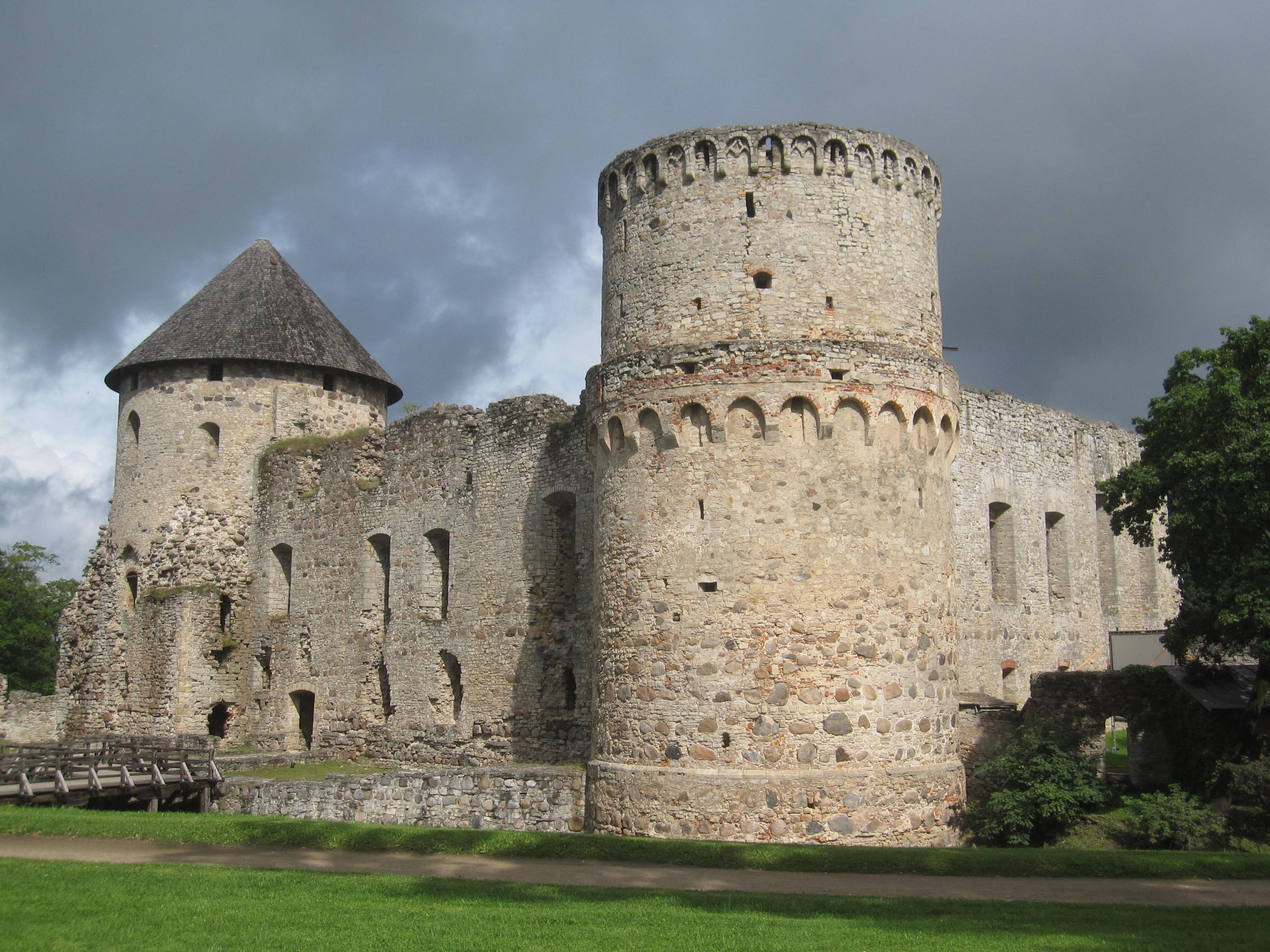 Cesis castle ruins (Latvia)